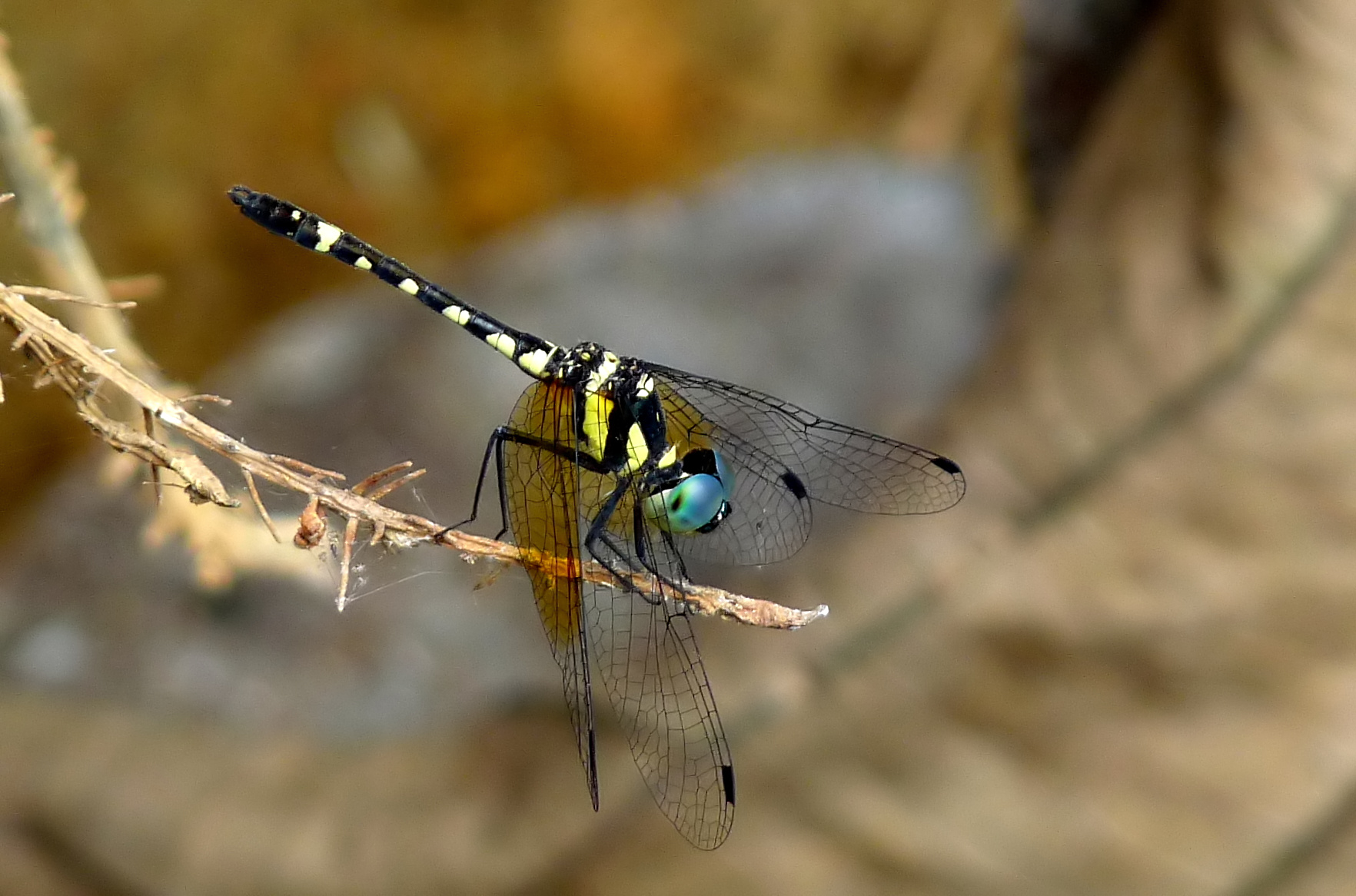 Pigmy Skimmer Male A small, large headed black and yellow dragonfly with amber coloured hind wing patch. Face of male is bright yellow with upper part and sides brilliant metallic blue. Eyes are emerald green in colour. Thorax is black with a bronze green sheen. A narrow median stripe and pair of broad stripe on sides is bright yellow. Underside is yellow with a broad black triangle. Wings are transparent. Base of the forewing and nearly half of the hindwing tinted with amber yellow. Abdomen is black with yellow spots on sides. Female lays eggs on dry twigs hanging over water. The eggs hatch out in rains and directly fall into the water below. Taken at Kadavoor, Kerala, India.